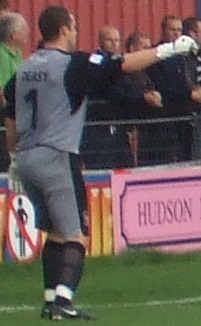 Tim Deasy.